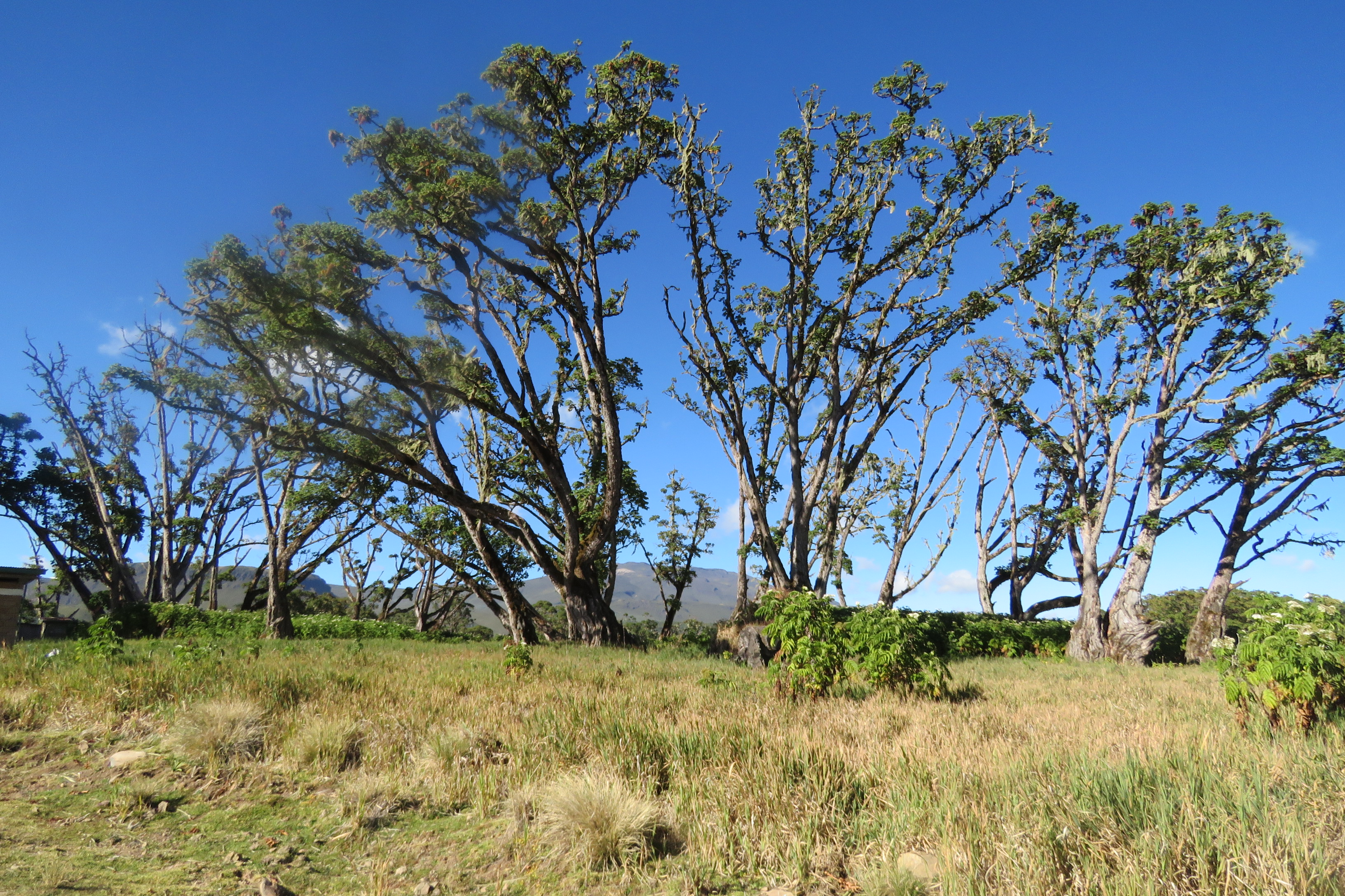 East African rosewood, Hagenia abyssinica, photographed at Chogoria gate, Mount Kenya, at approximately 2950 m altitude